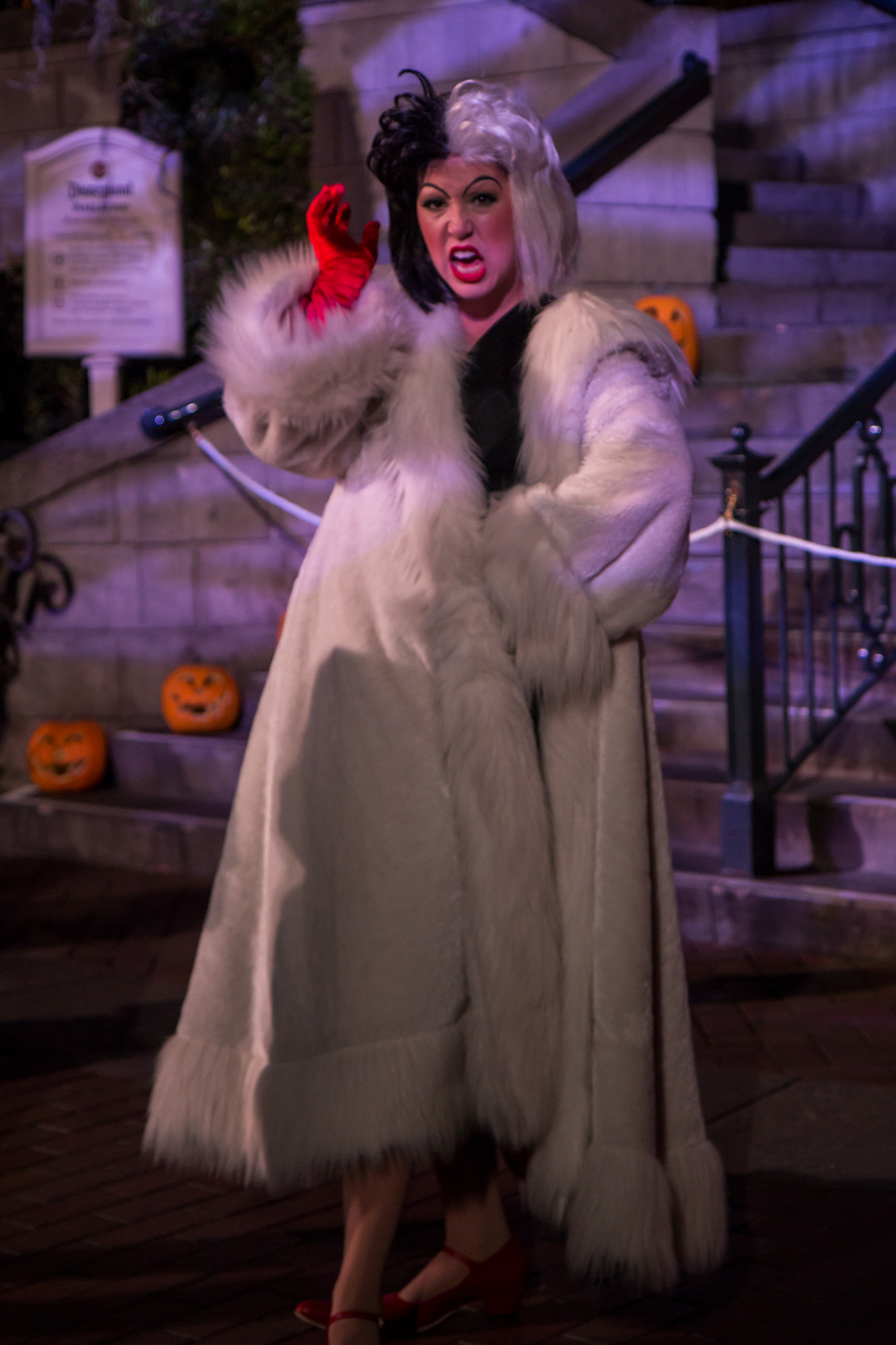 Posing for the camera on Main Street during Mickey's Halloween Party.